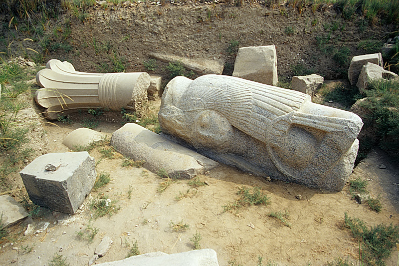 Upper part of a statue of a queen of Ramesses II, Tell Basta, Egypt